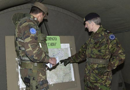 EUFOR_TACTICS